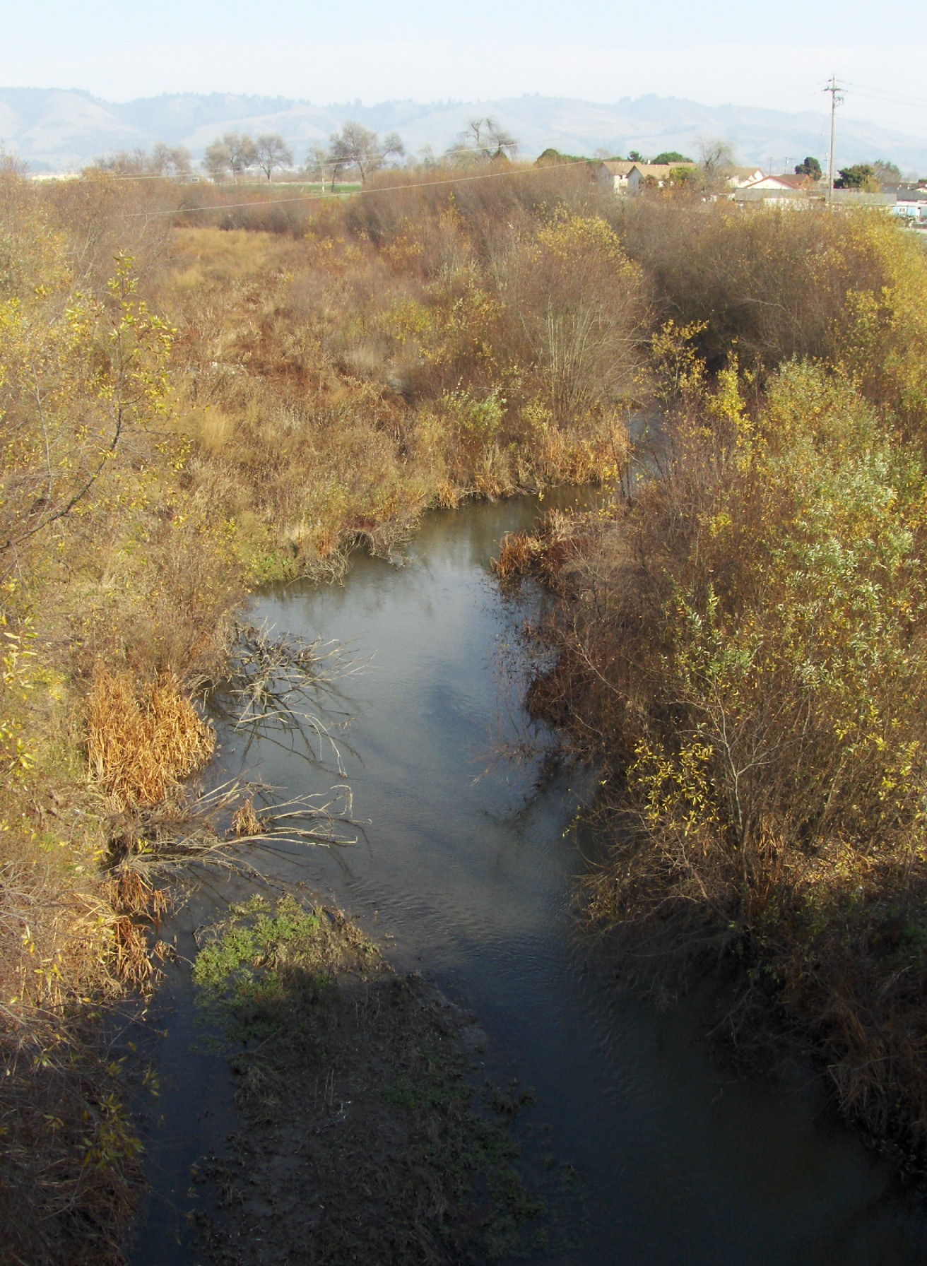 Pajaro River in Pajaro, CA looking east towards Hecker Pass.